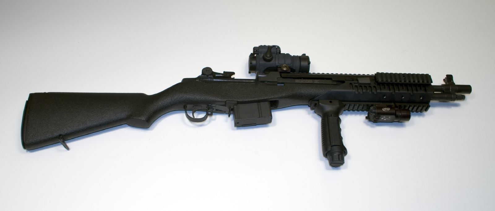 Springfield Armory SOCOM II .308 with Aimpoint scope and Surefire x200